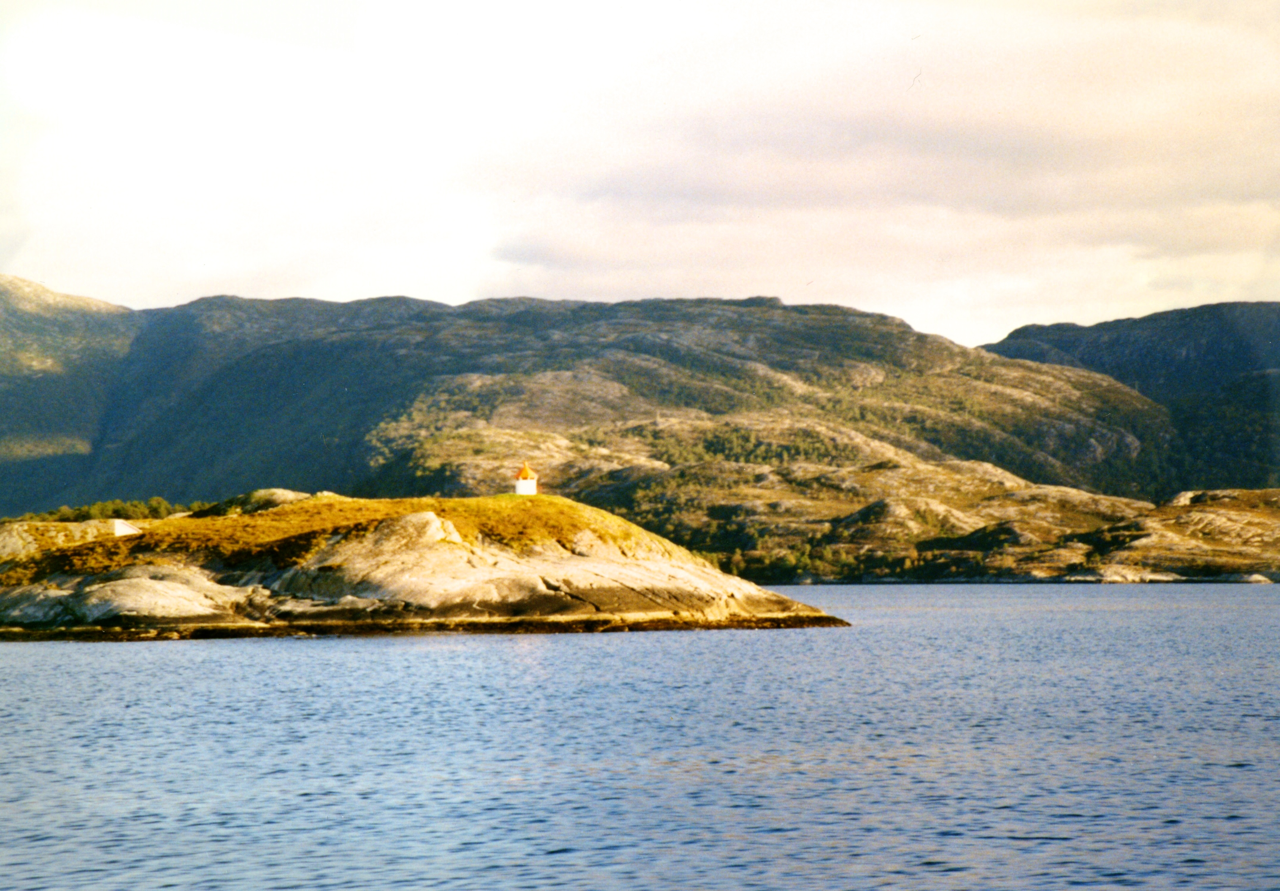 Gulen municipality, Norway.